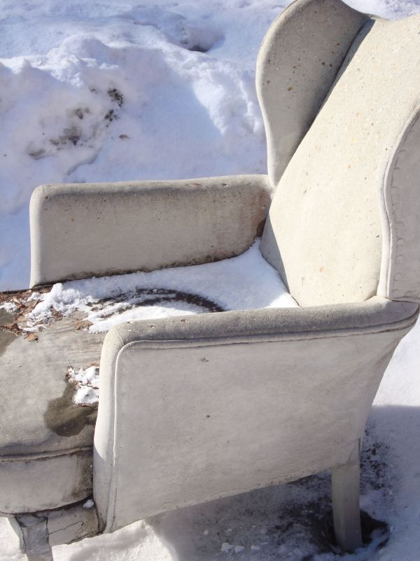 Umeå sculpture park/Sweden with Hardback (2000) by Nina Saunders#